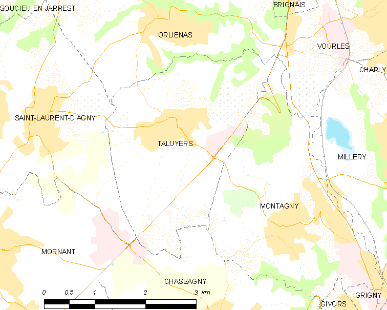 Map of French municipality